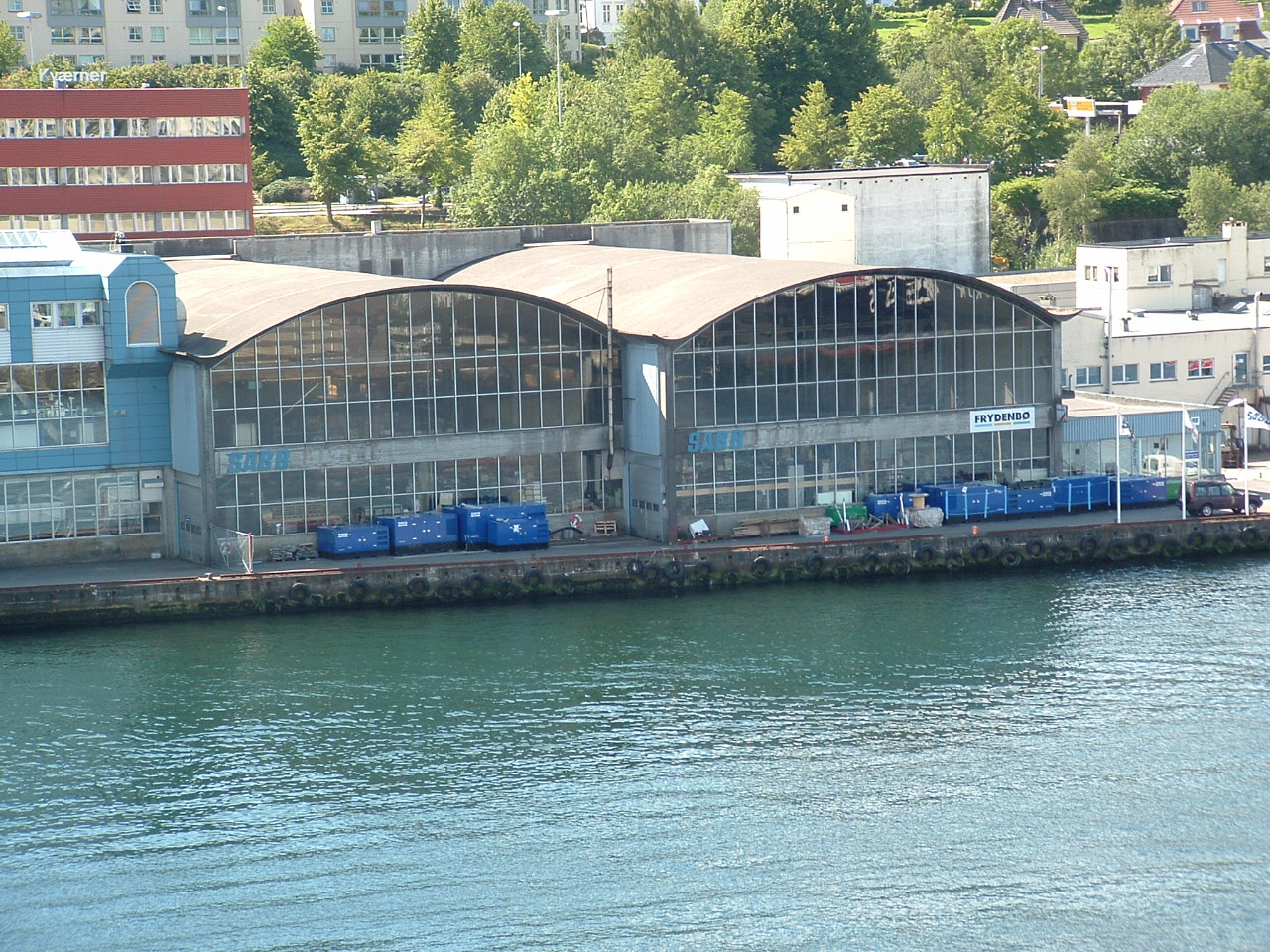 Sabb Motor Works at Damsgårdssundet, Bergen, Norway